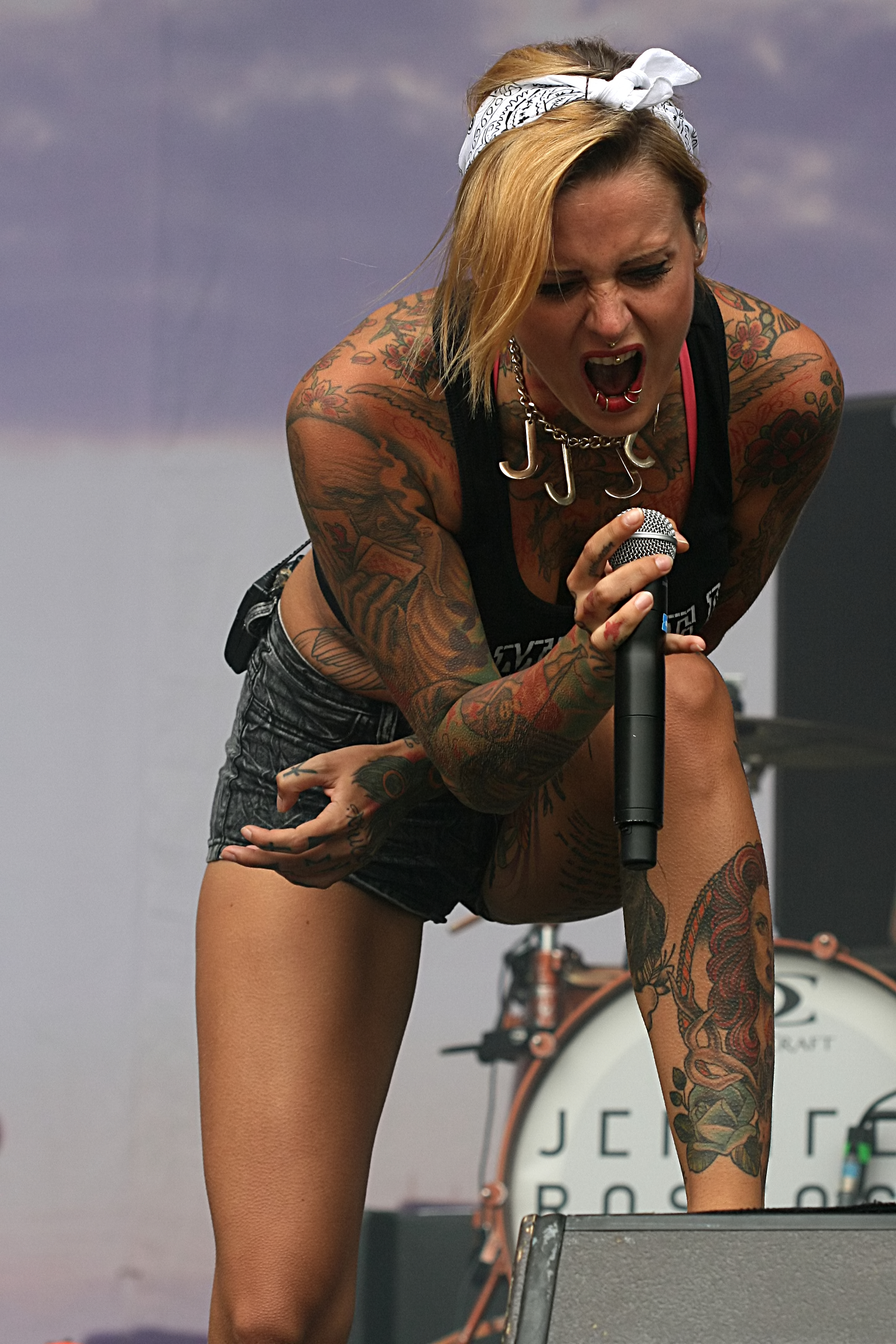 Jennifer, singer of Jennifer Rostock, on the Main Stage of the Taubertal Festival 2013. Festivalsommer This photo was created with the support of donations to Wikimedia Deutschland in the context of the CPB project "Festival Summer".